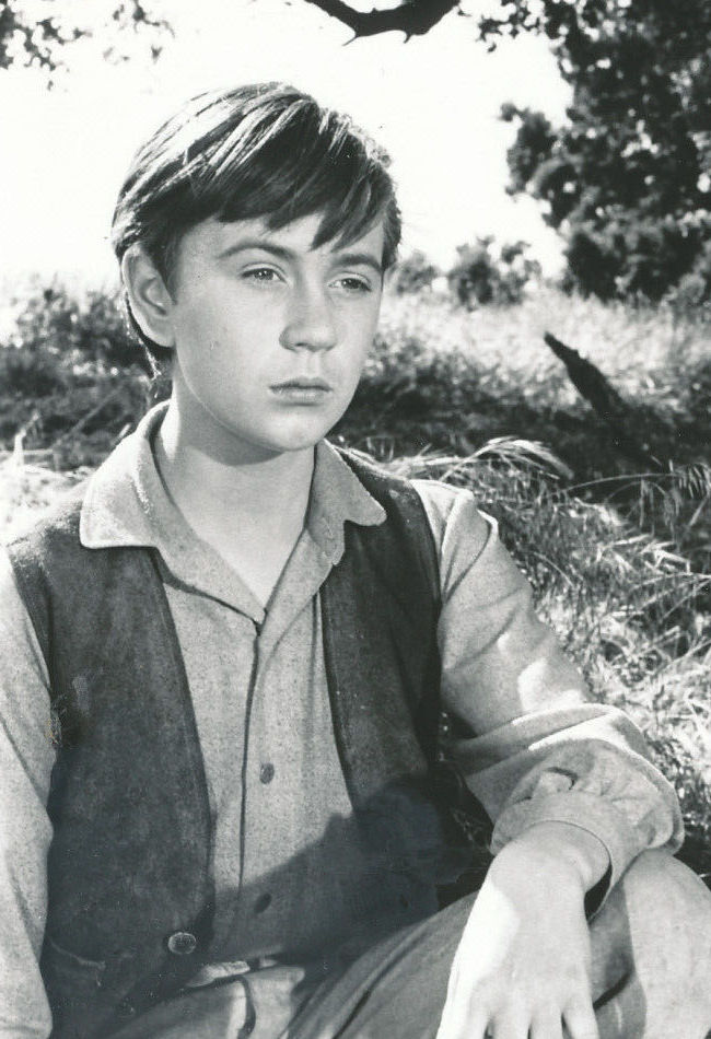 Photo of Tommy Kirk during the Walt Disney film Old Yeller.